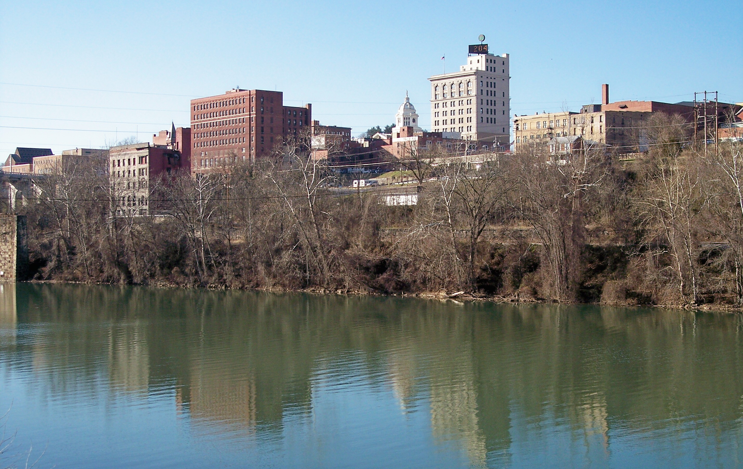 Downtown Fairmont, West Virginia and the Monongahela River